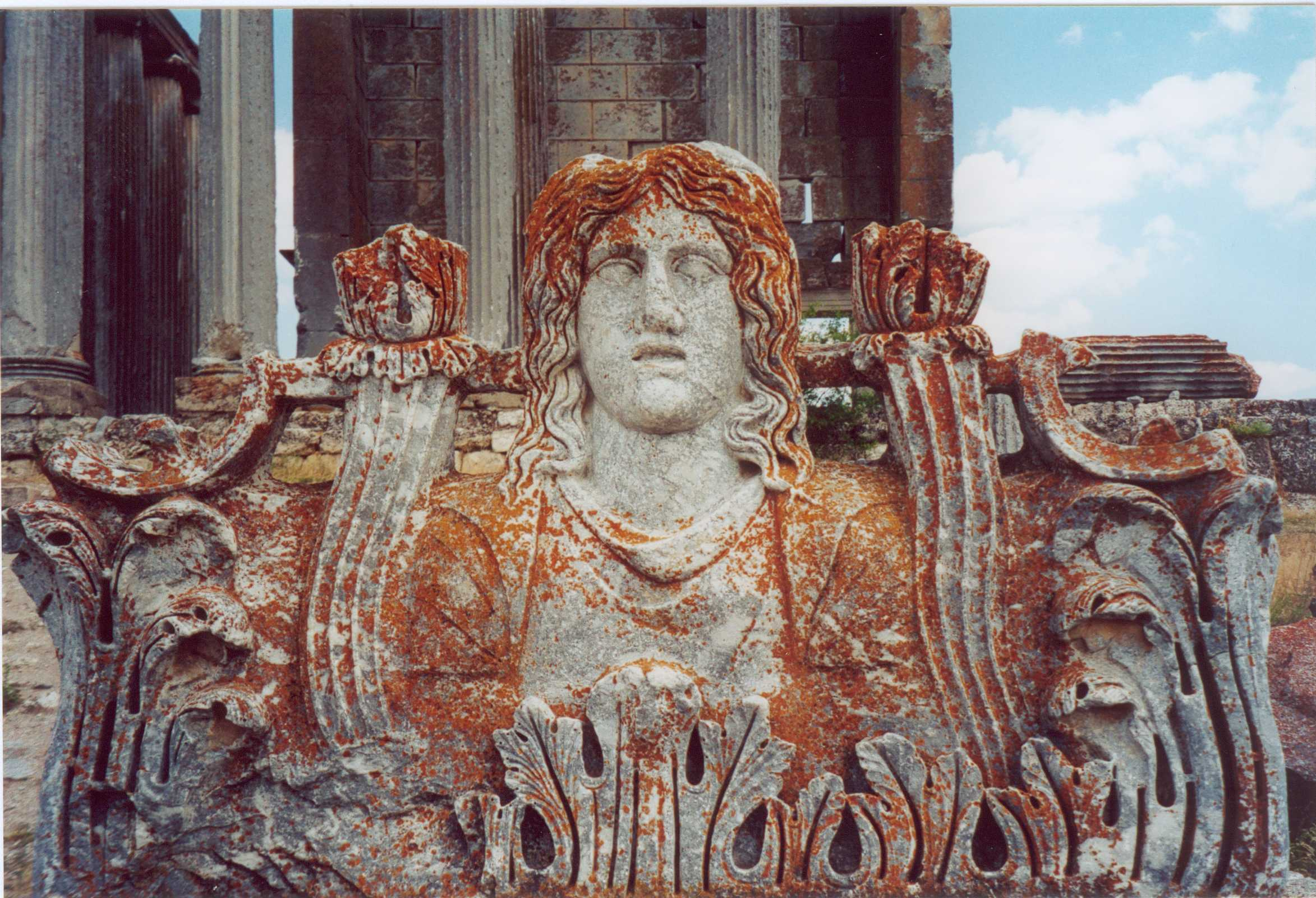 Sculpture with Zeus temple in the background at Aizanoi (Turkey)